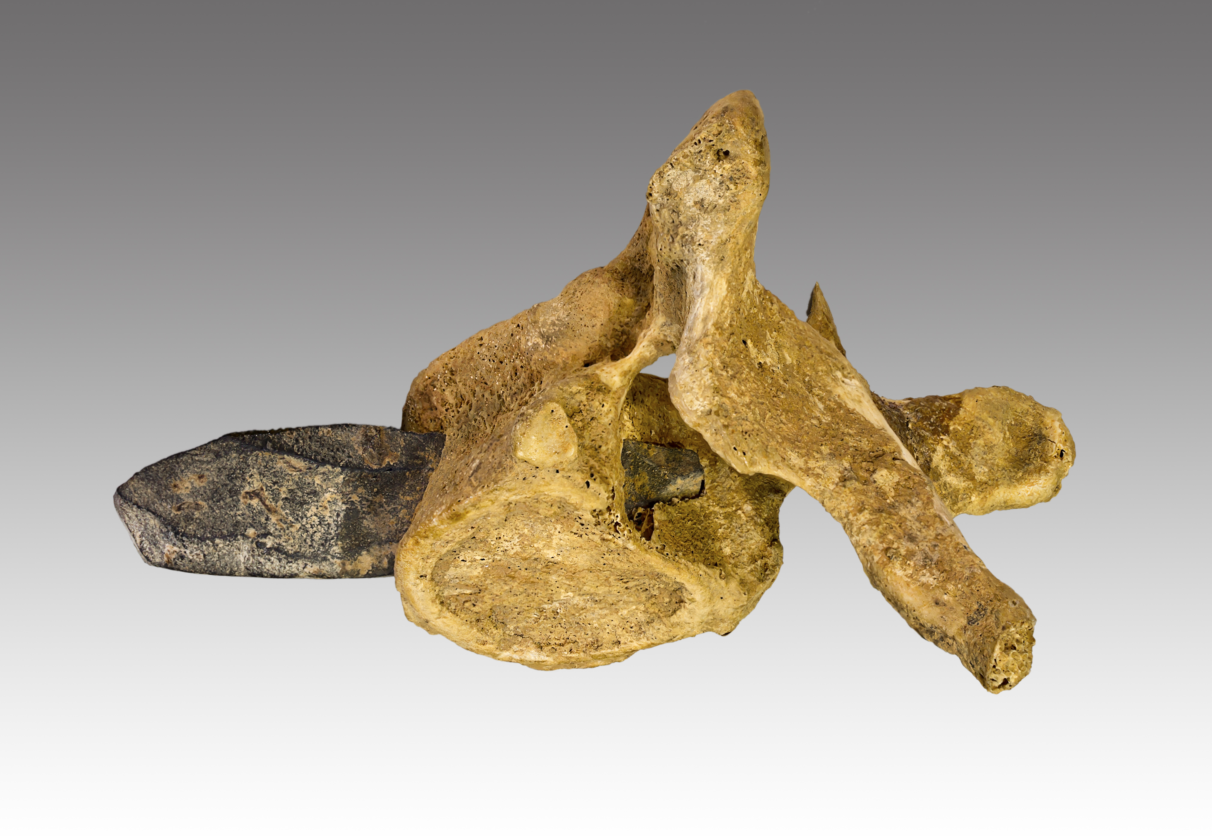 Human thoracic vertebra with a spearhead fixed into the vertebral body. Stage : Upper Paleolithic - Magdalenian Locality : Cave of Monfort, Saint-Lizier Former collection of Félix Régnault. Size : 8.5 x 5.8 x 5.5 cm